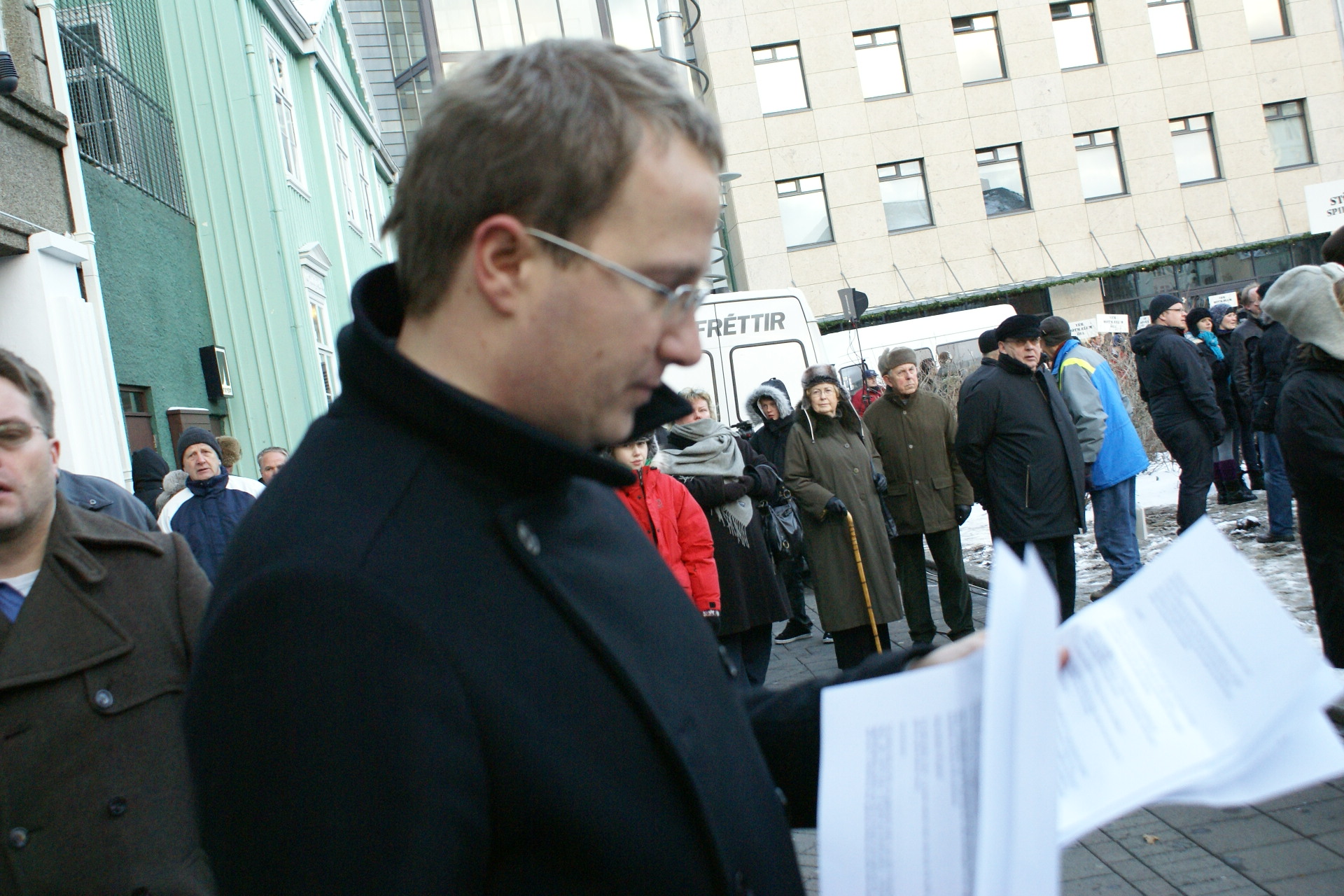 Week 6. Andri Snær Magnason speaker at Austurvöllur. The Kitchenware-Revolution in Iceland was organize by Hördur Torfason and "Raddir Fólksins". It started in the wake of the collapse of the banking system followed be the decimation of Icelandic economy in the beginning of October 2008. It resulted in the resignation of Geir H. Haarde and his cabinet on January 26. 2009. The protest meetings were held every Saturday at the Austurvöllur square in front of Alþingishús - the Icelandic parliament house. The first meeting (week 1) was dated Saturday 11. October 2008. The 16th meeting dated January 24. 2009